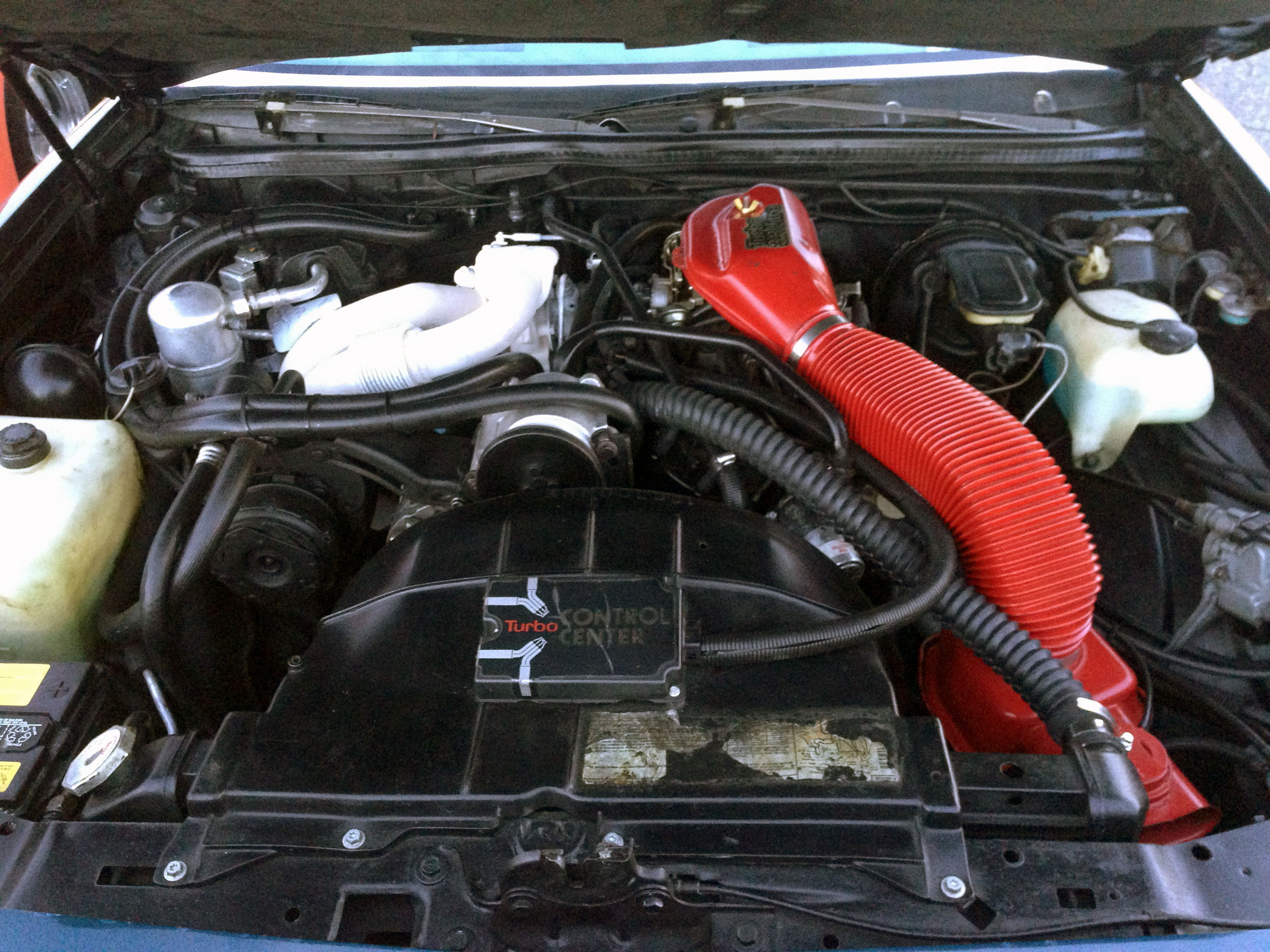 The carburetted, turbocharged 3.8-litre V6 engine of a 1978 Buick Regal Sport Coupe in timewarp original condition.